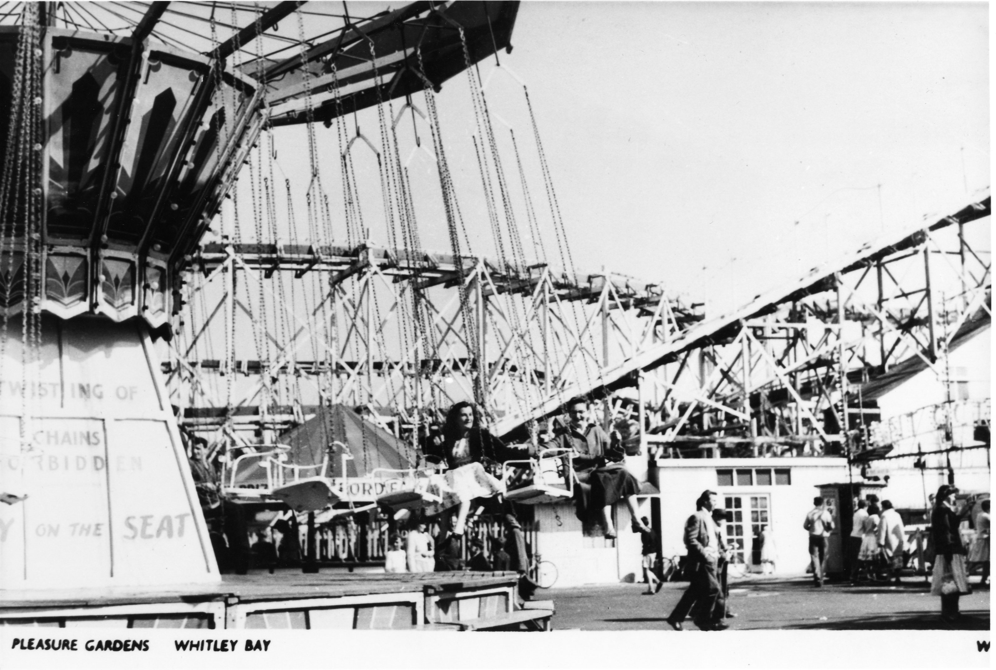 Postcard of the Pleasure Gardens, the former permanent funfair in the Spanish City, Whitley Bay, England